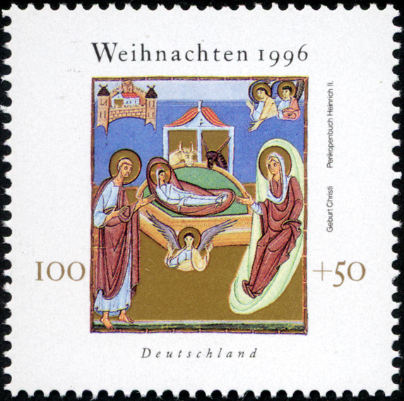 Stamp from Deutsche Post AG from 1996, Christmas: the Nativity; miniatures from Perikopenbuch of Heinrich II.